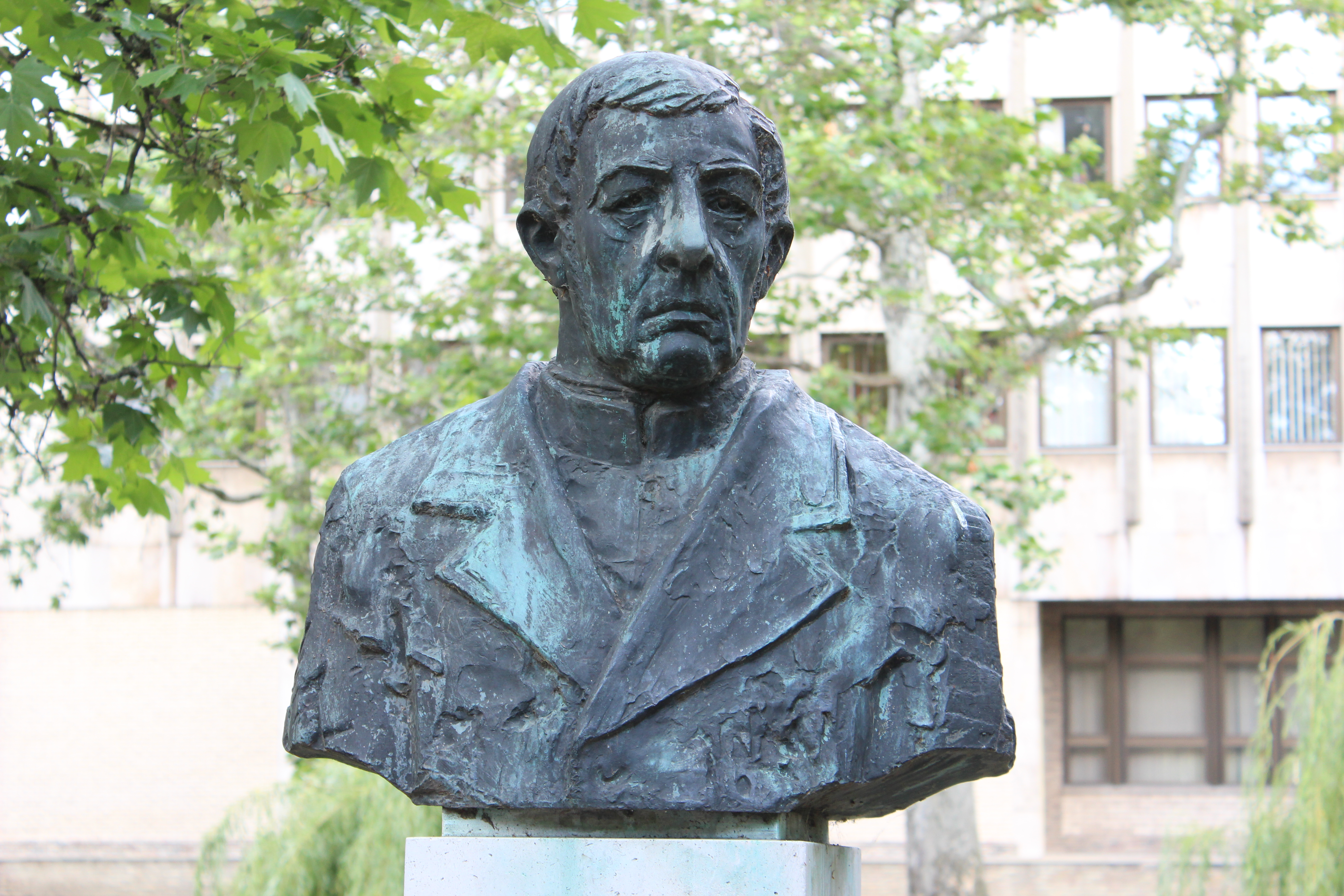 Bust of Lajos Haan (Békéscsaba, Hungary). Sculptor: Gyula Kiss Kovács, 1970.